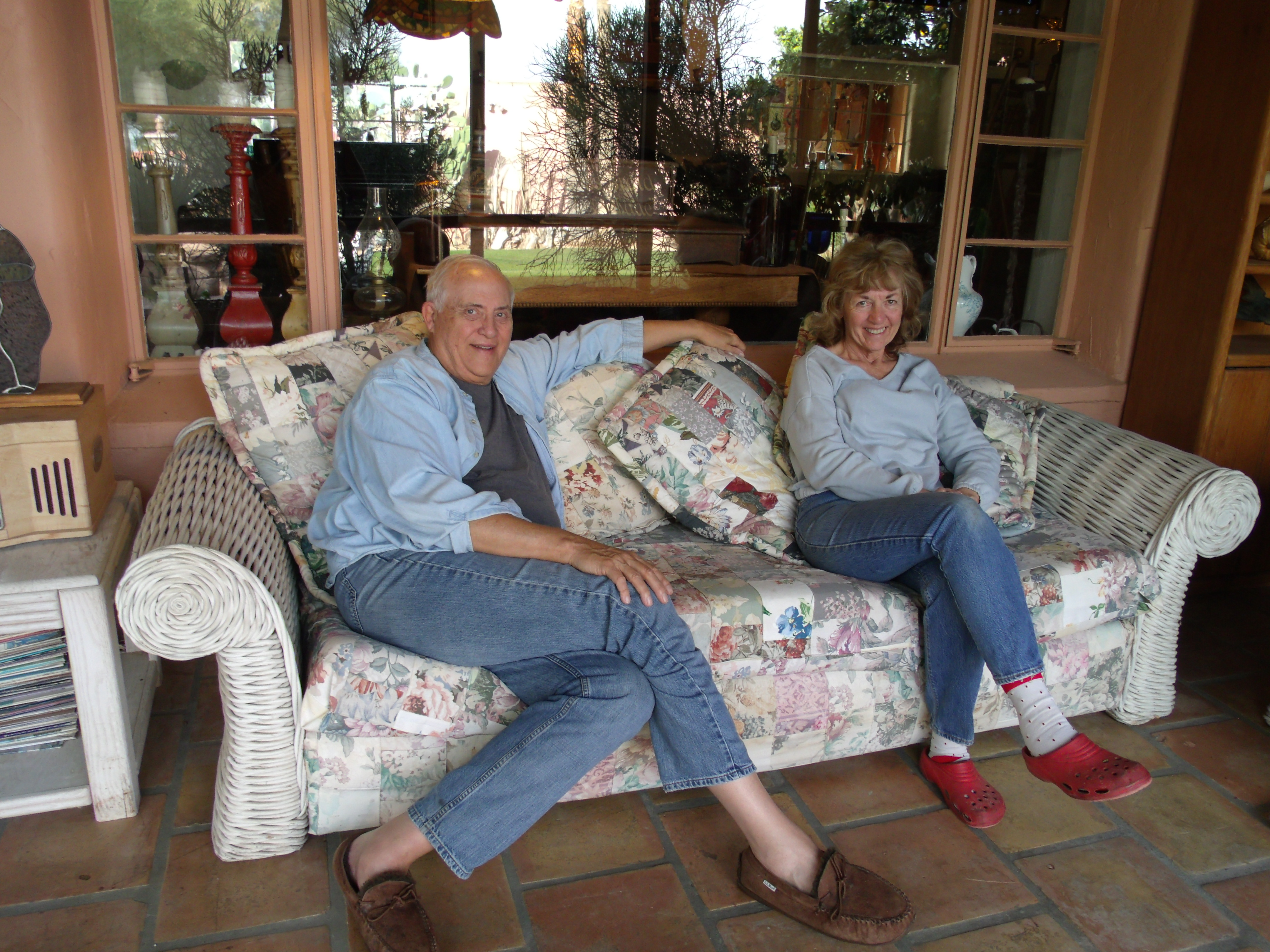 William “Bill” and Ann Epley, owners of the historic Squaw Peak Inn.